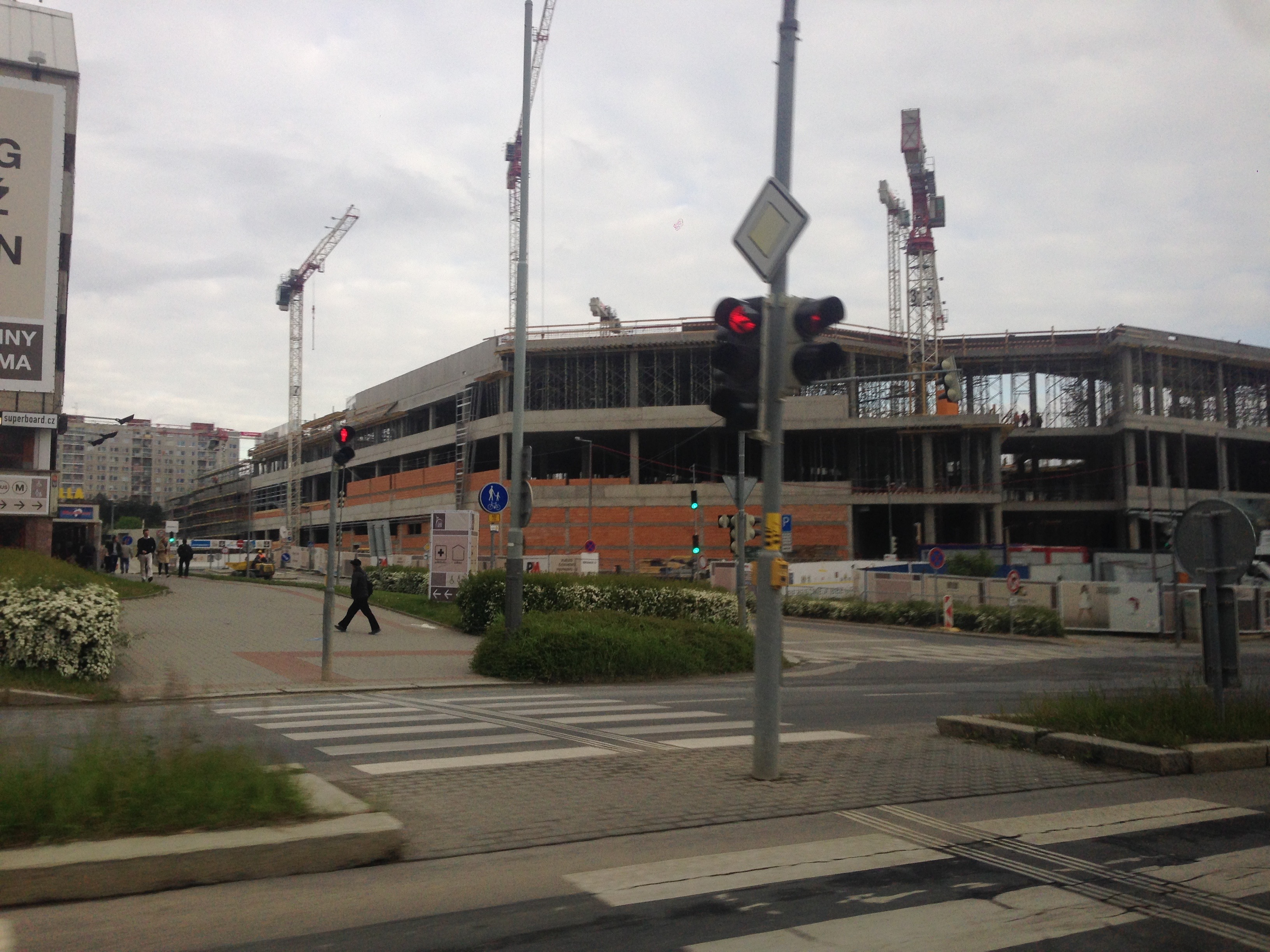 Centrum Chodov construction.